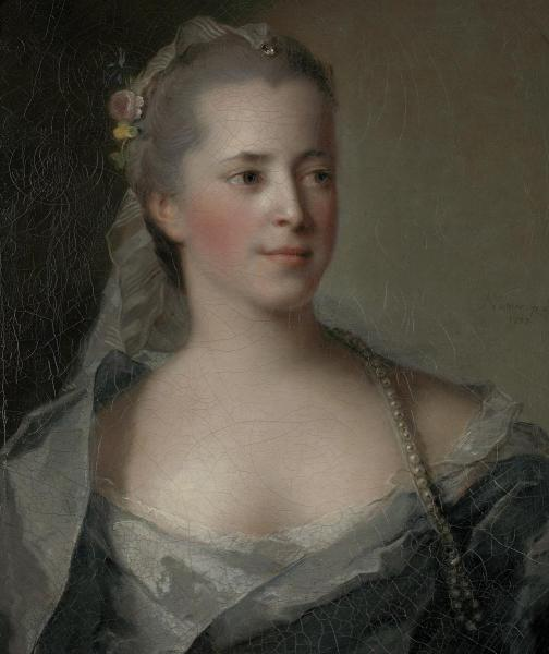 Ekaterina Dmitrievna Golitsyna (1720–1761), née Cantemir, wife of D.M. Golitsyn (1721–1793)